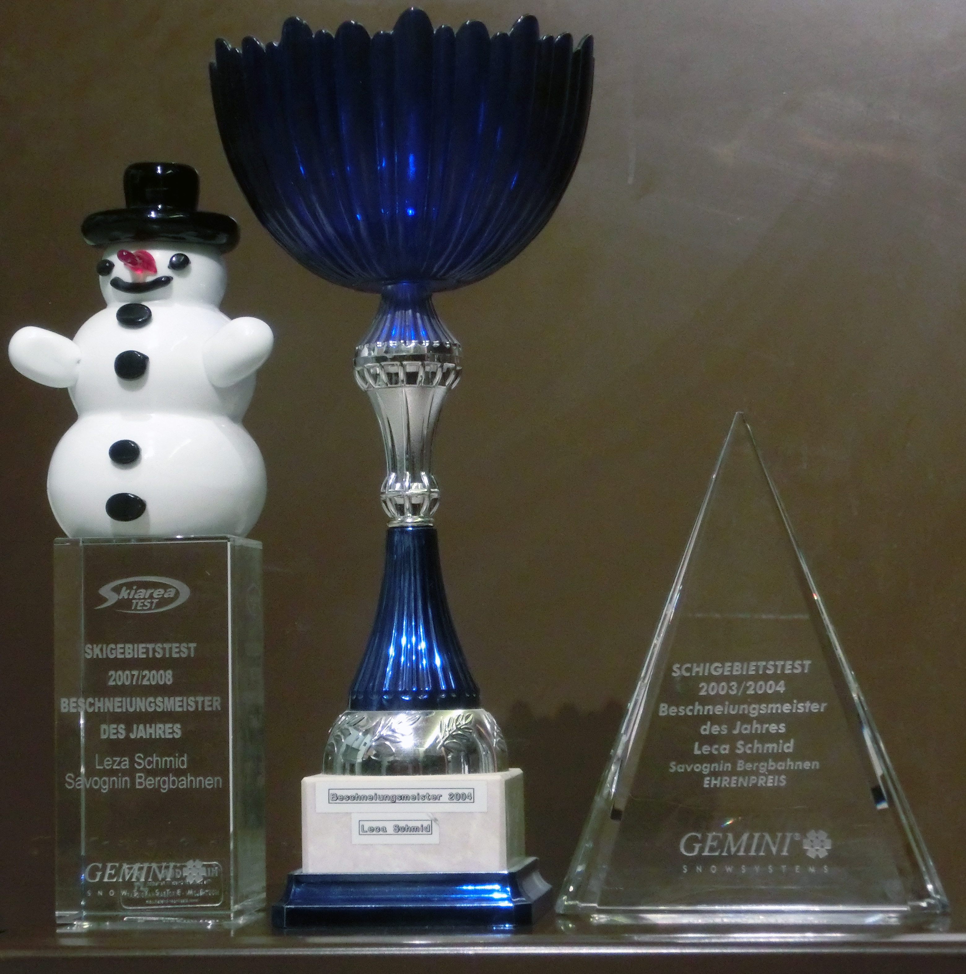 Trophies of Skiarea Test for the best snow maker 2007/2008 (left), 2004 (middle) and 2003/2004 (right) for Leza Schmid (Savognin Bergbahnen).